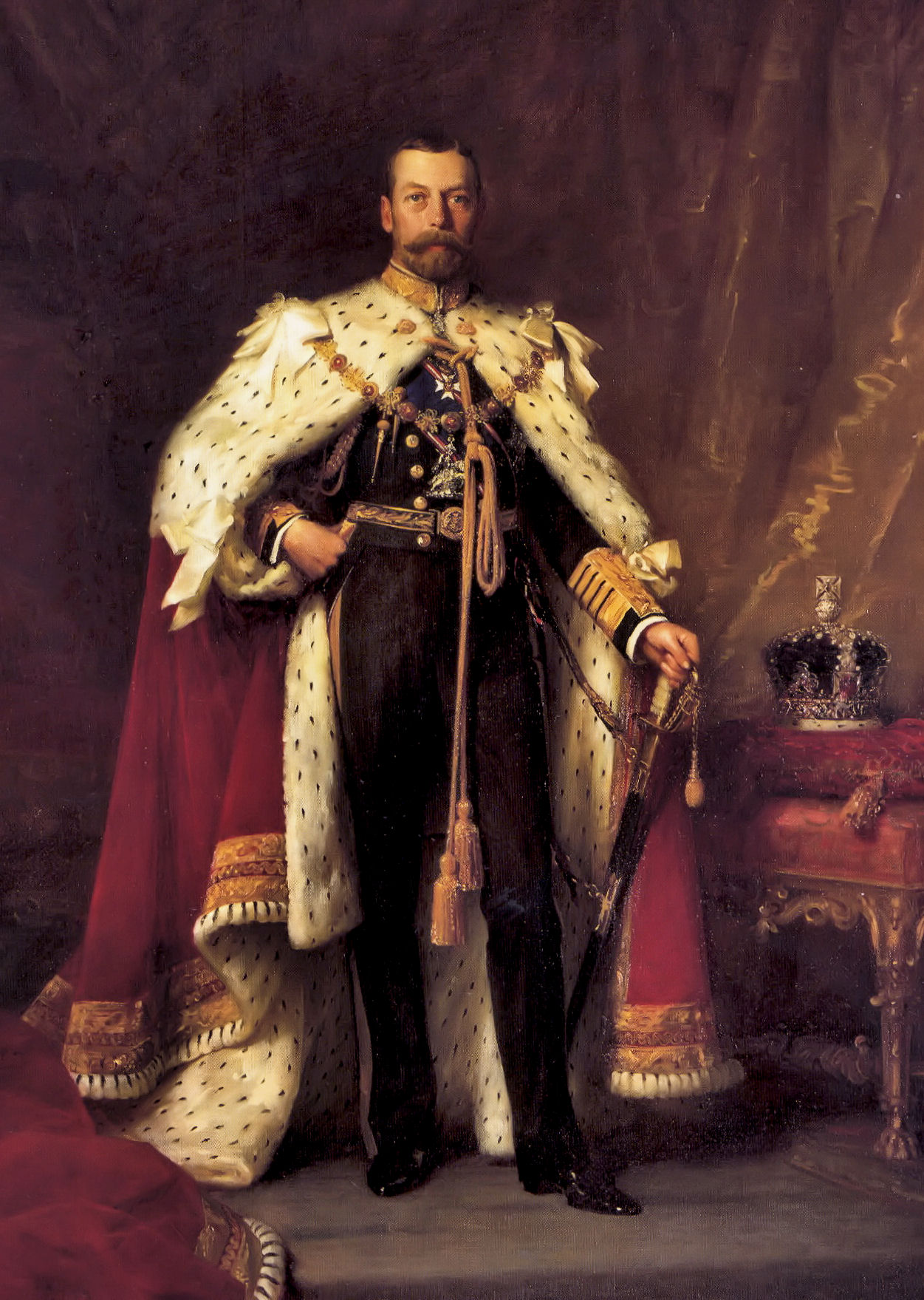 George V in coronation robes.